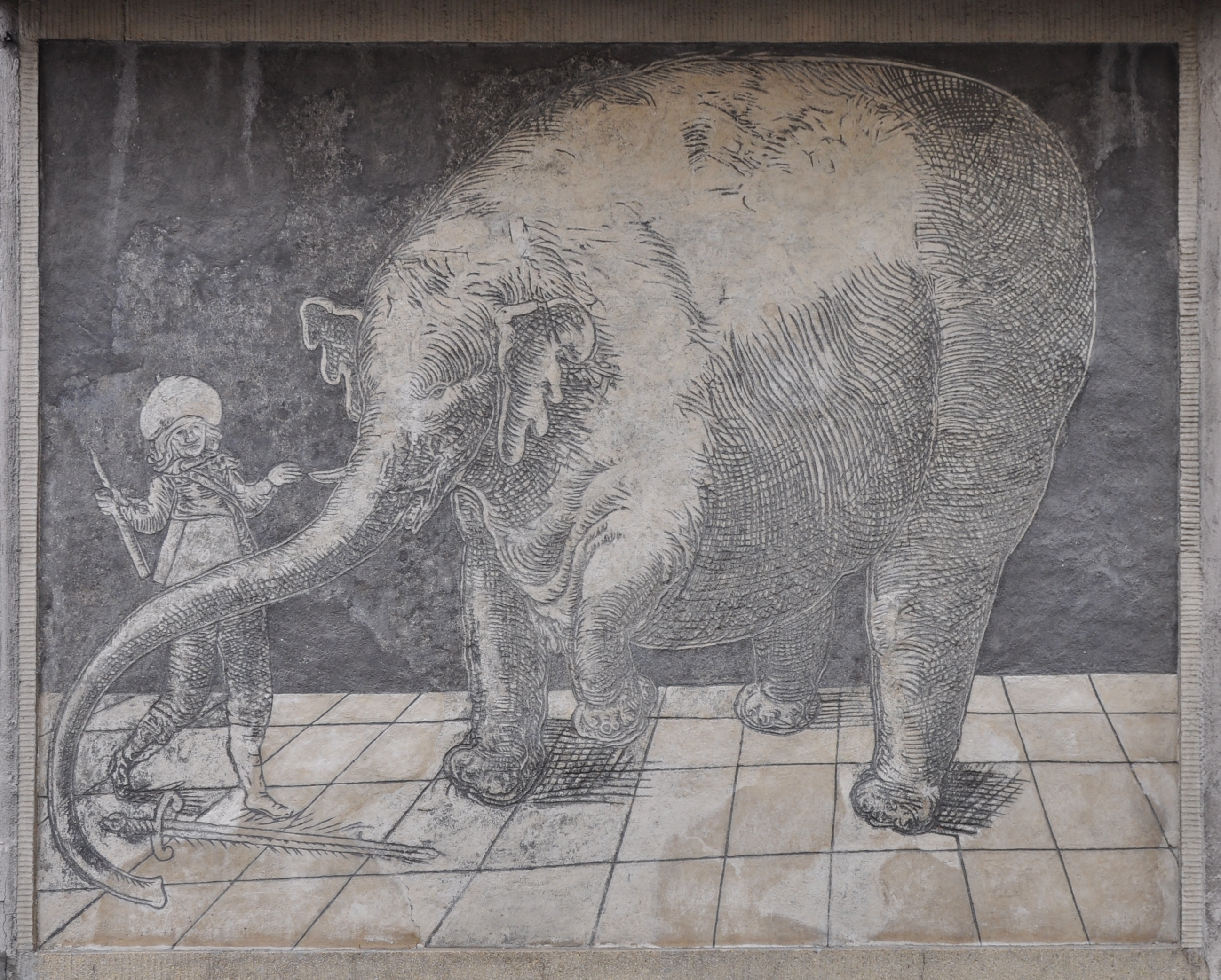 Sgraffito with elephant Hansken (1639) in Trzebiatów